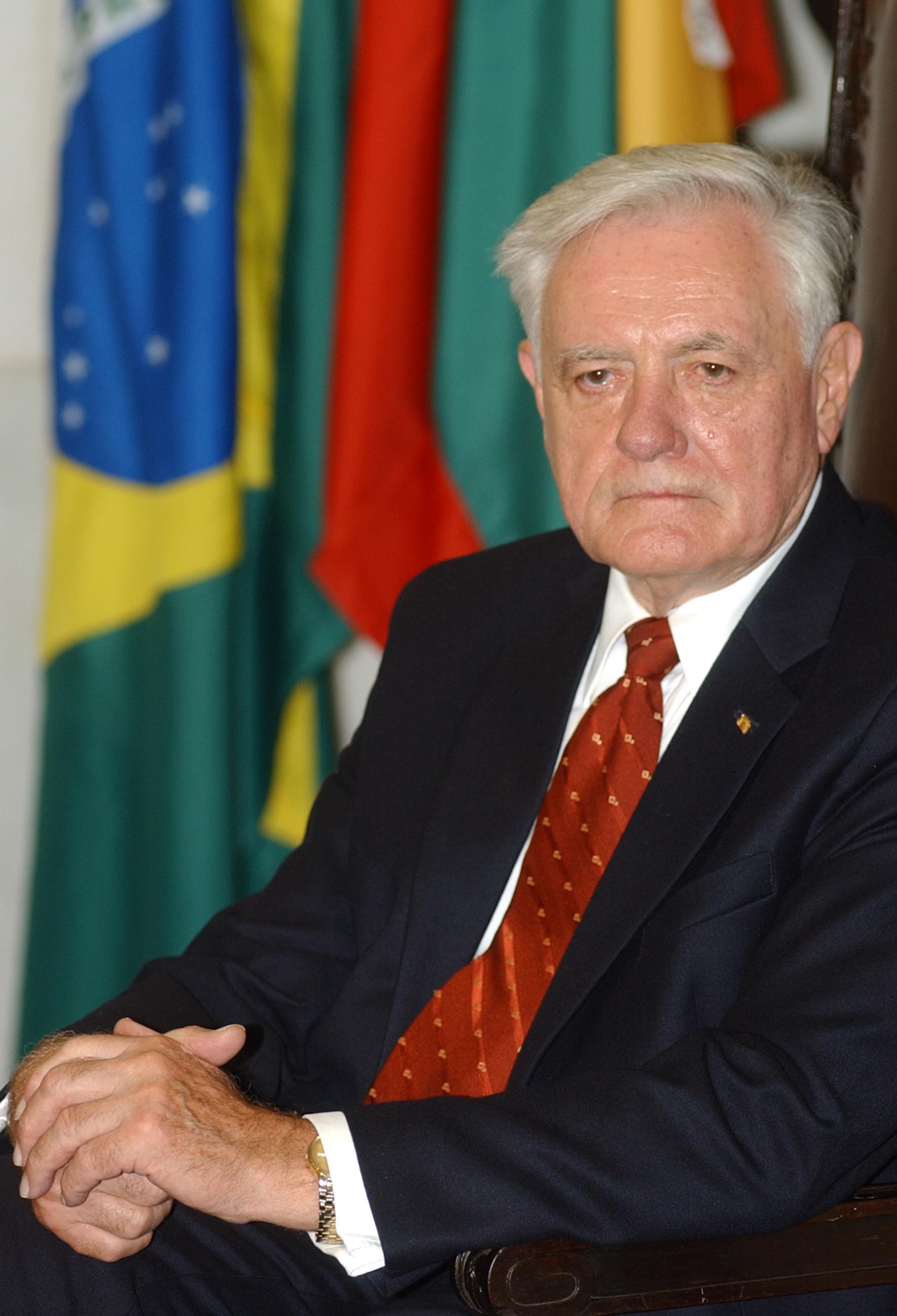 Valdas Adamkus, President of the Republic of Lithuania, in Brazil.